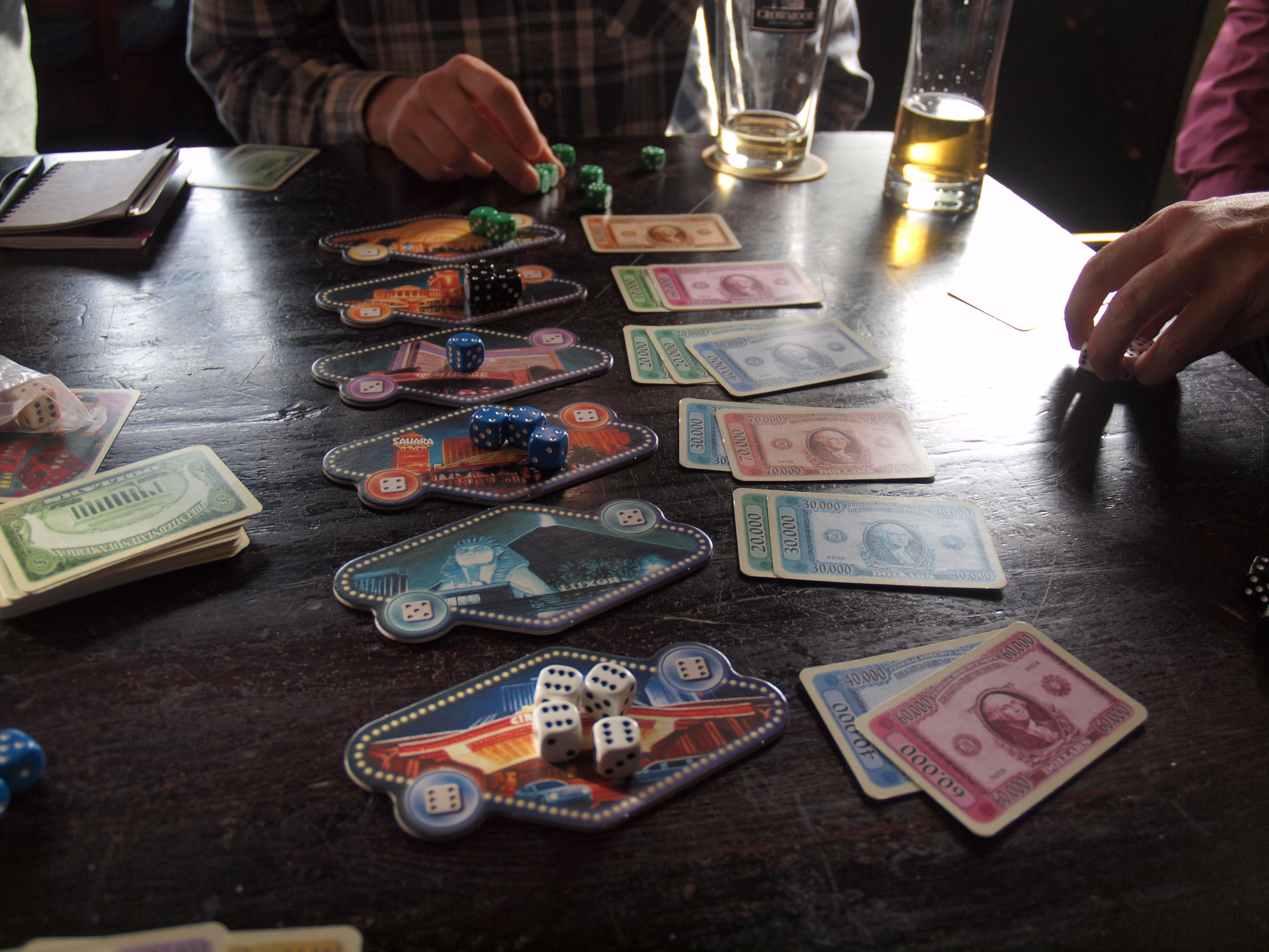 A game of Las Vegas being played at a pub in central Kerava, Uusimaa, Finland.